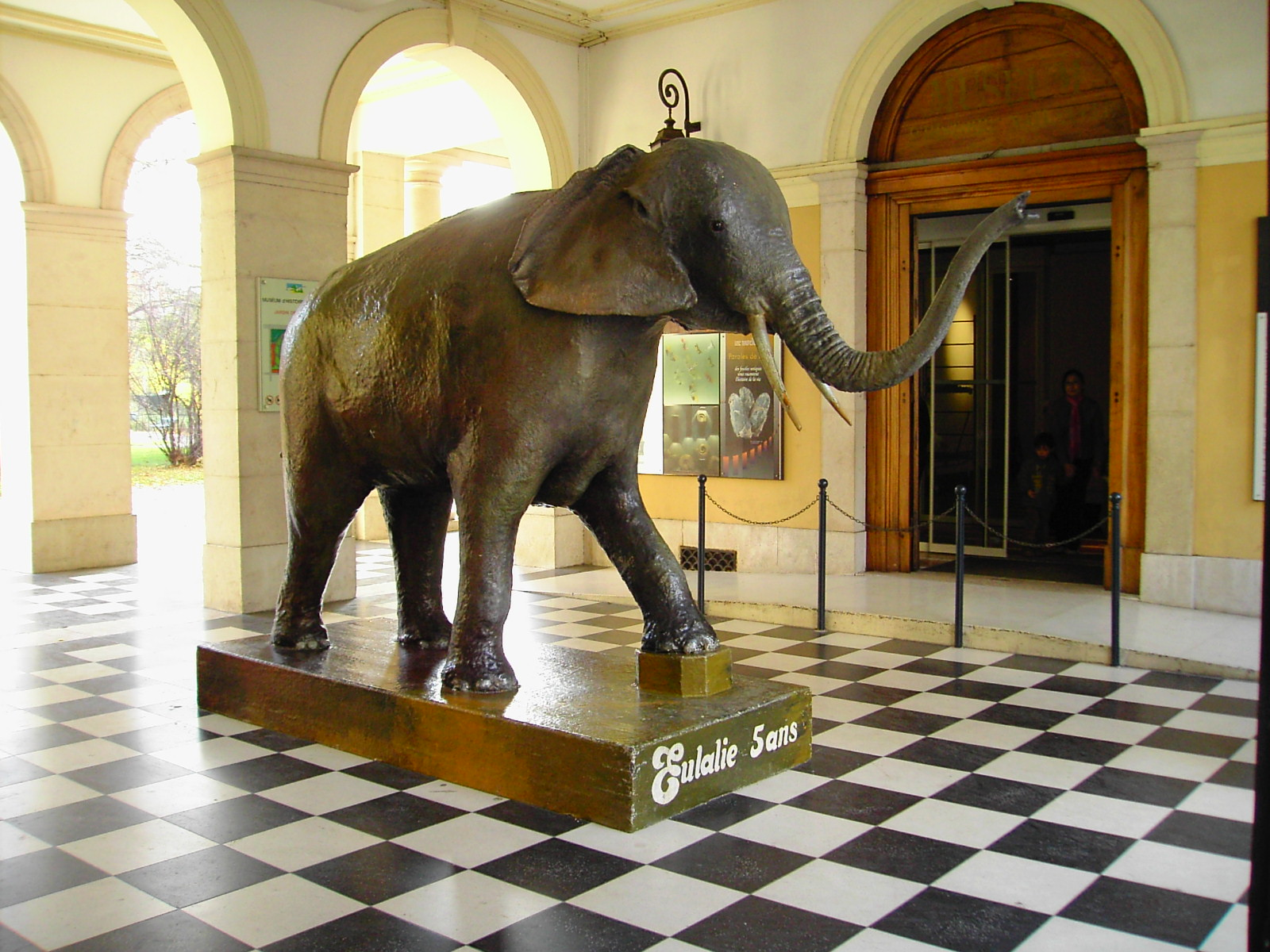 Eulalie, a stuffed young elephant, Grenoble Museum of Natural History. Made in 1878.